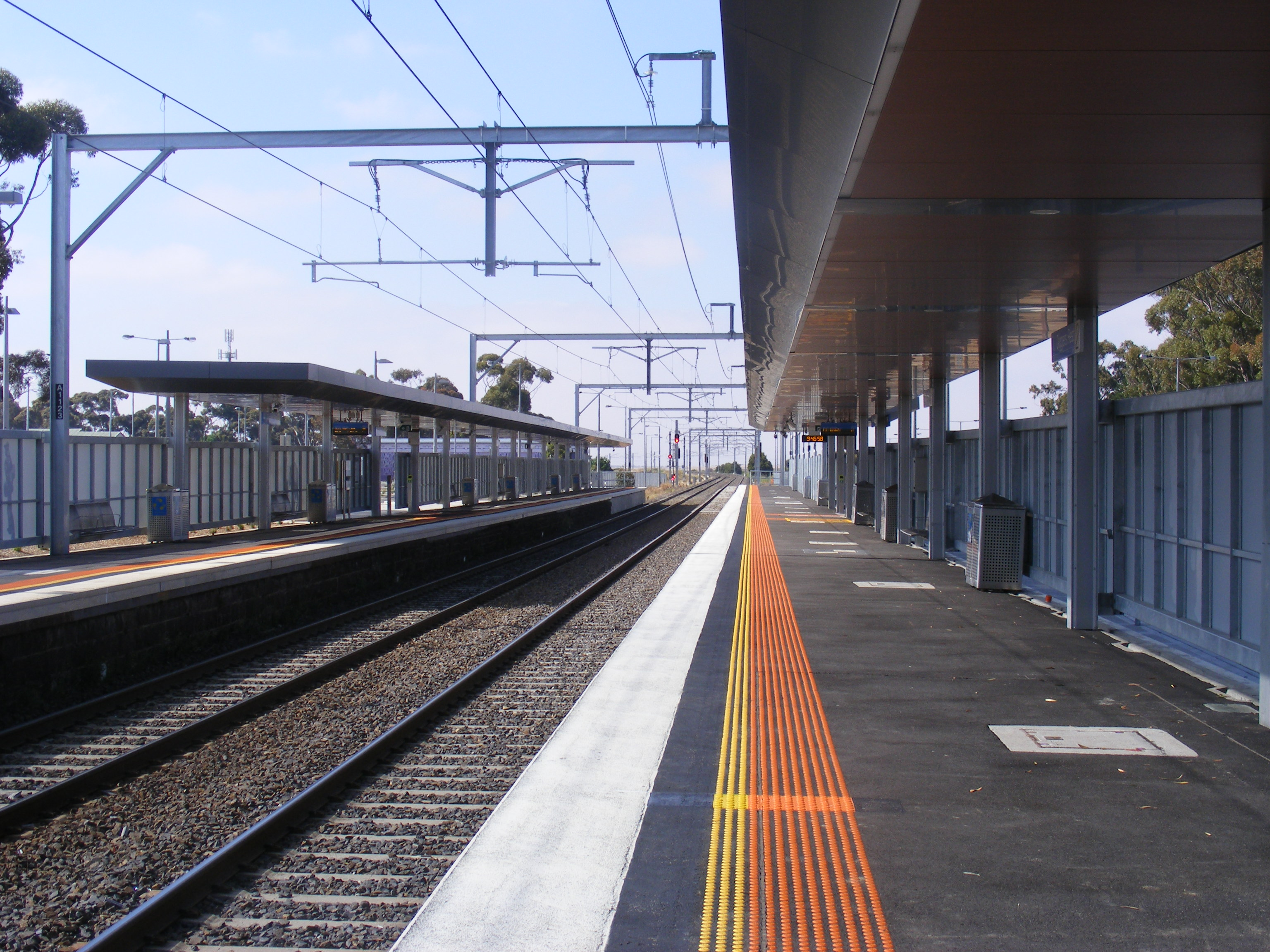 November 2012 looking towards Melbourne.